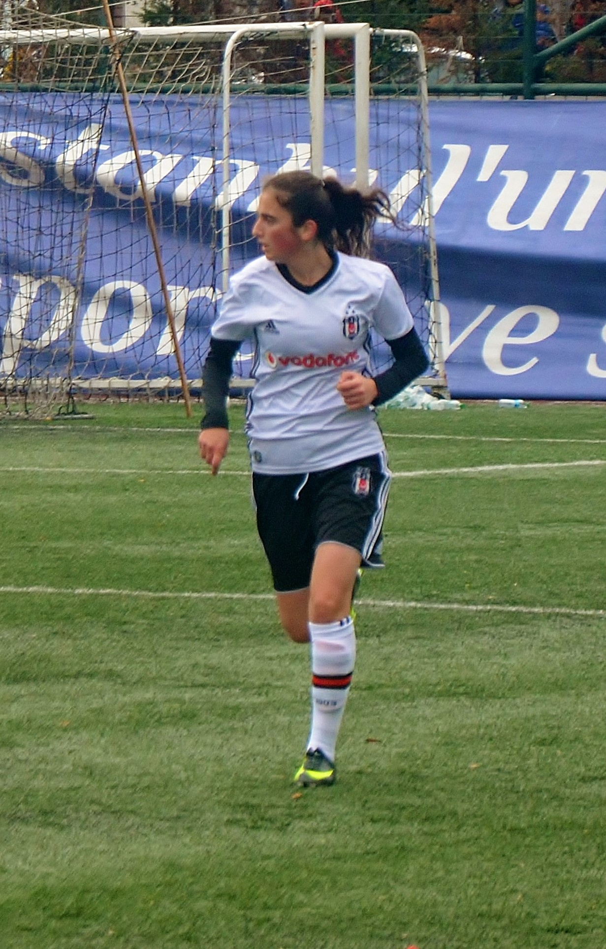 Zeynep Gamze Koçer for Beşiktaş J.K. in the 2017-18 season.